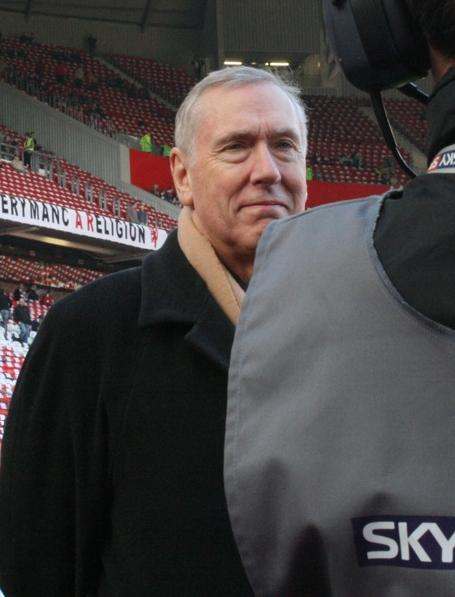 English football (soccer) commentator Martin Tyler